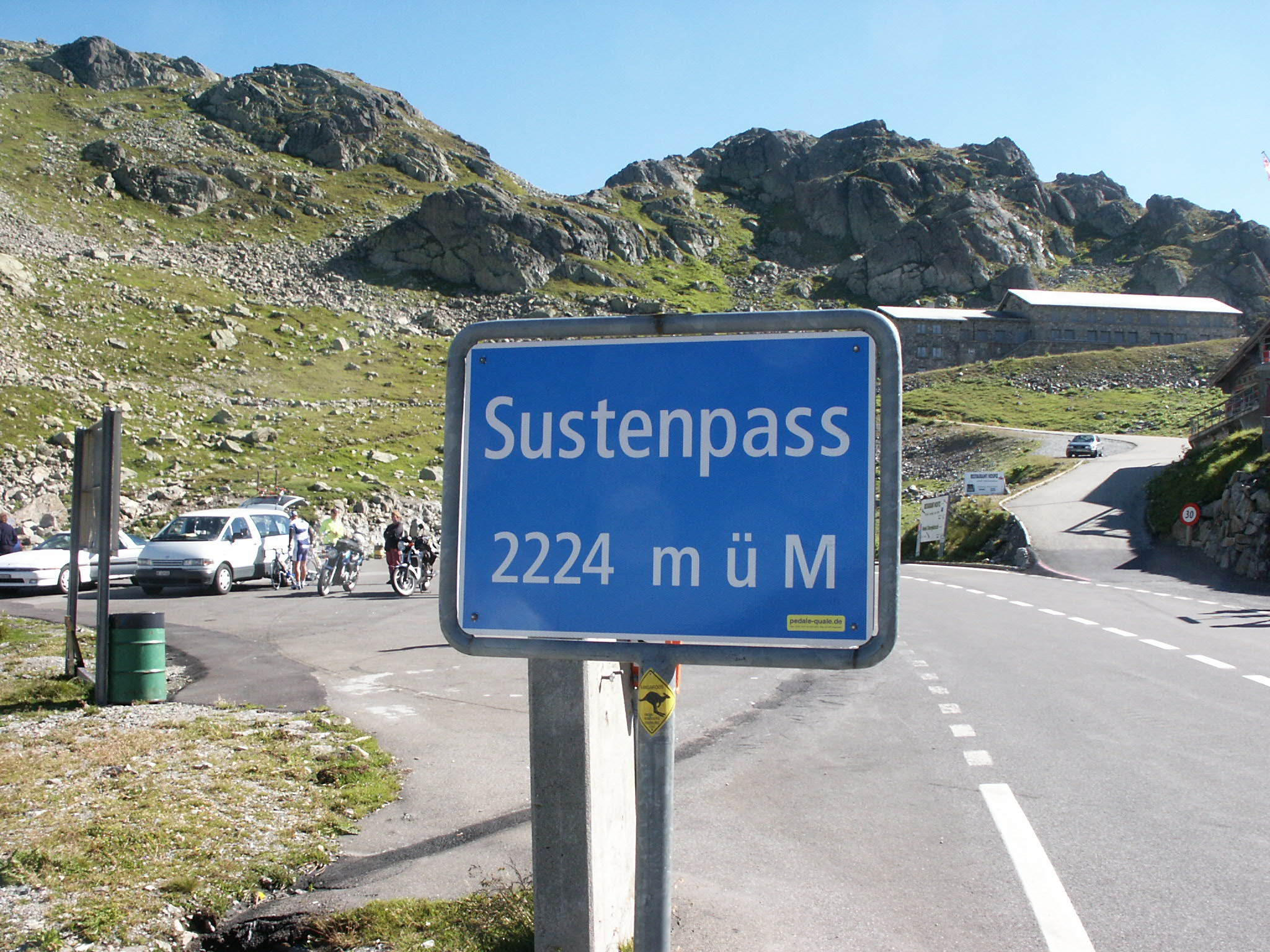 Switzerland, Sustenpass, Susten high alpine pass route, road sign 2224 meters